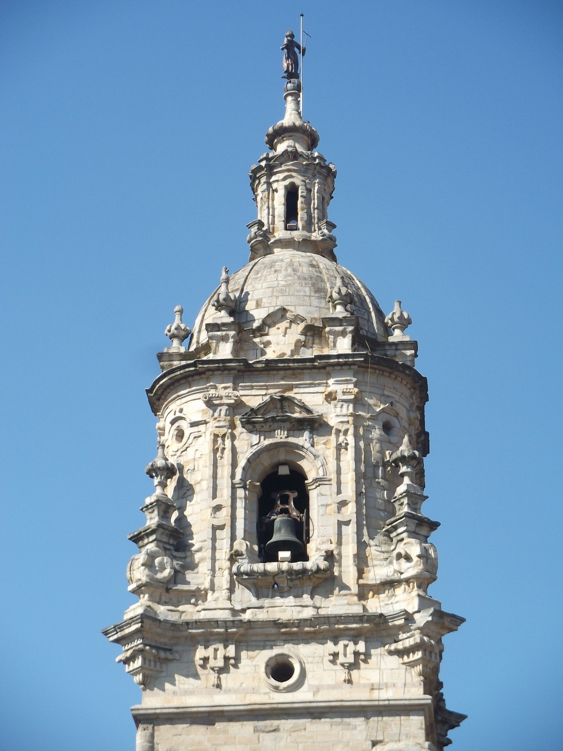 Belfry Tower of Church of San Anton in Bilbao